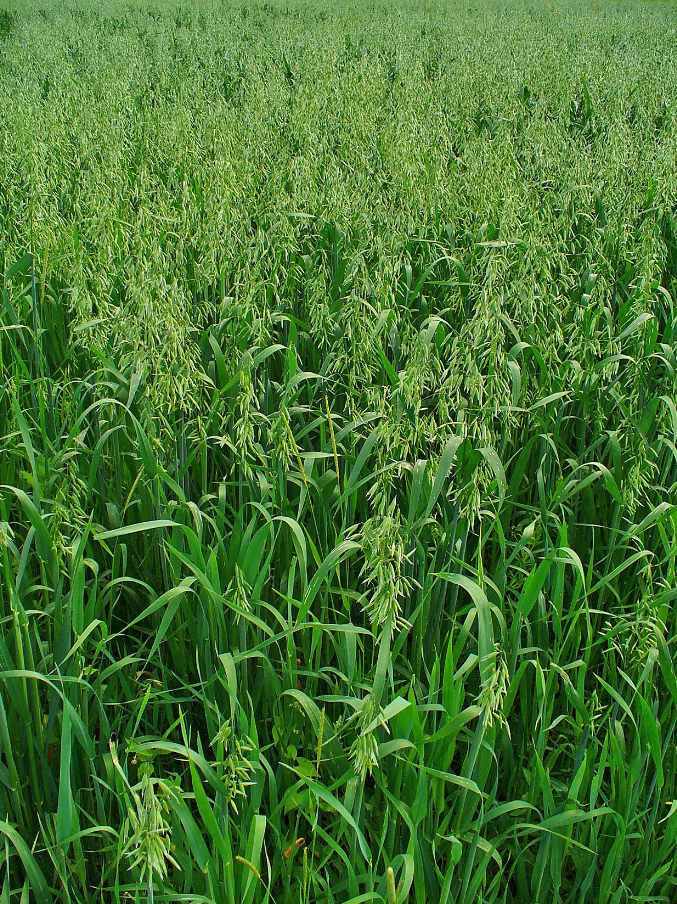 Avena sativa, Poaceae, Common Oat, habitus; Stutensee, Germany. The fresh aerial parts of the blooming plants are used in homeopathy as remedy: Avena sativa (Aven.)